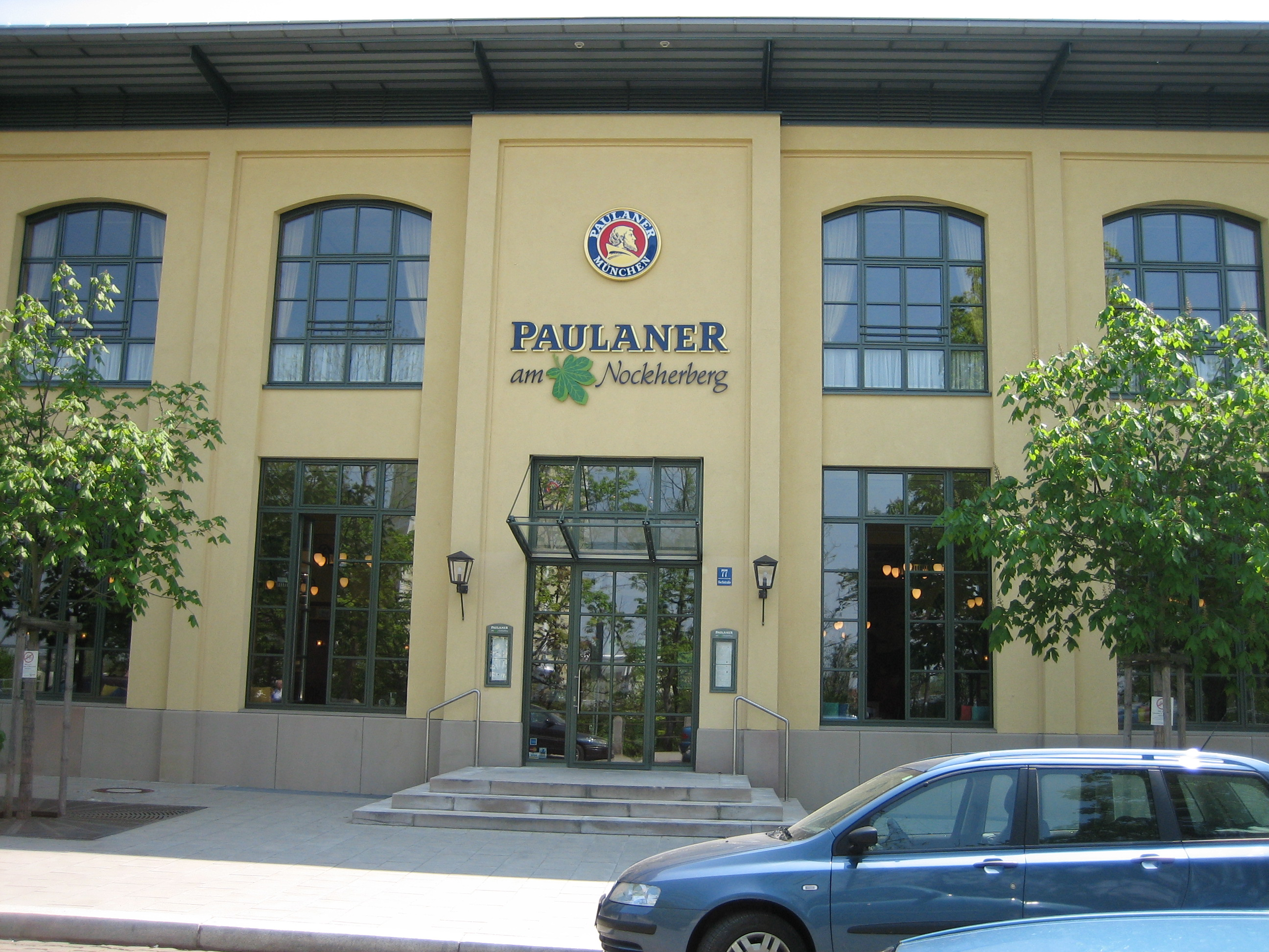 Paulaner am Nockherberg in Munich, main entrance of the brewery's inn from the other side of the street Hochstraße